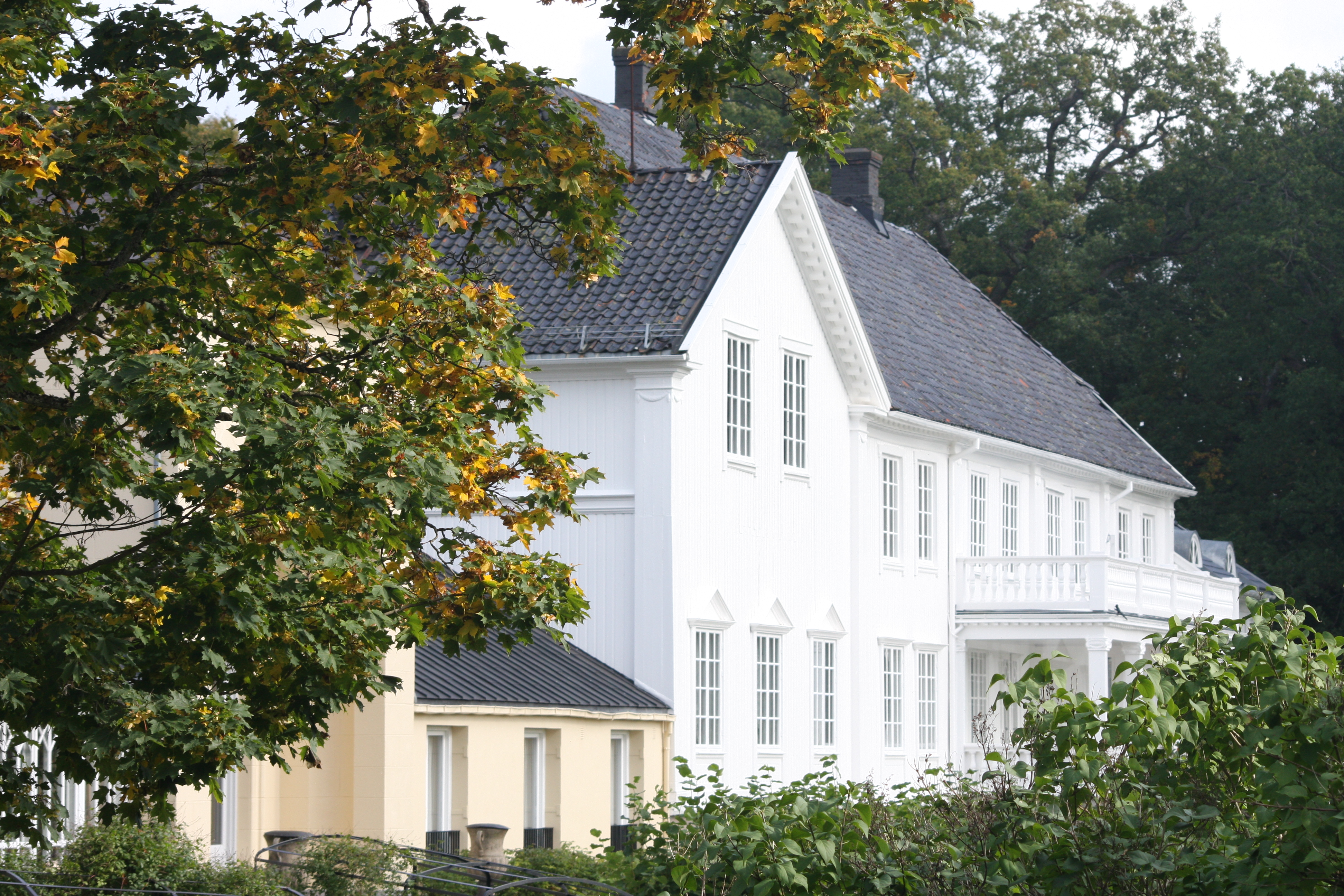 Röd herregaard (Röd manor( in the city of Halden, Norway. It belonged to the Anker family, and was visited by Thomas Robert Malthus in 1799.